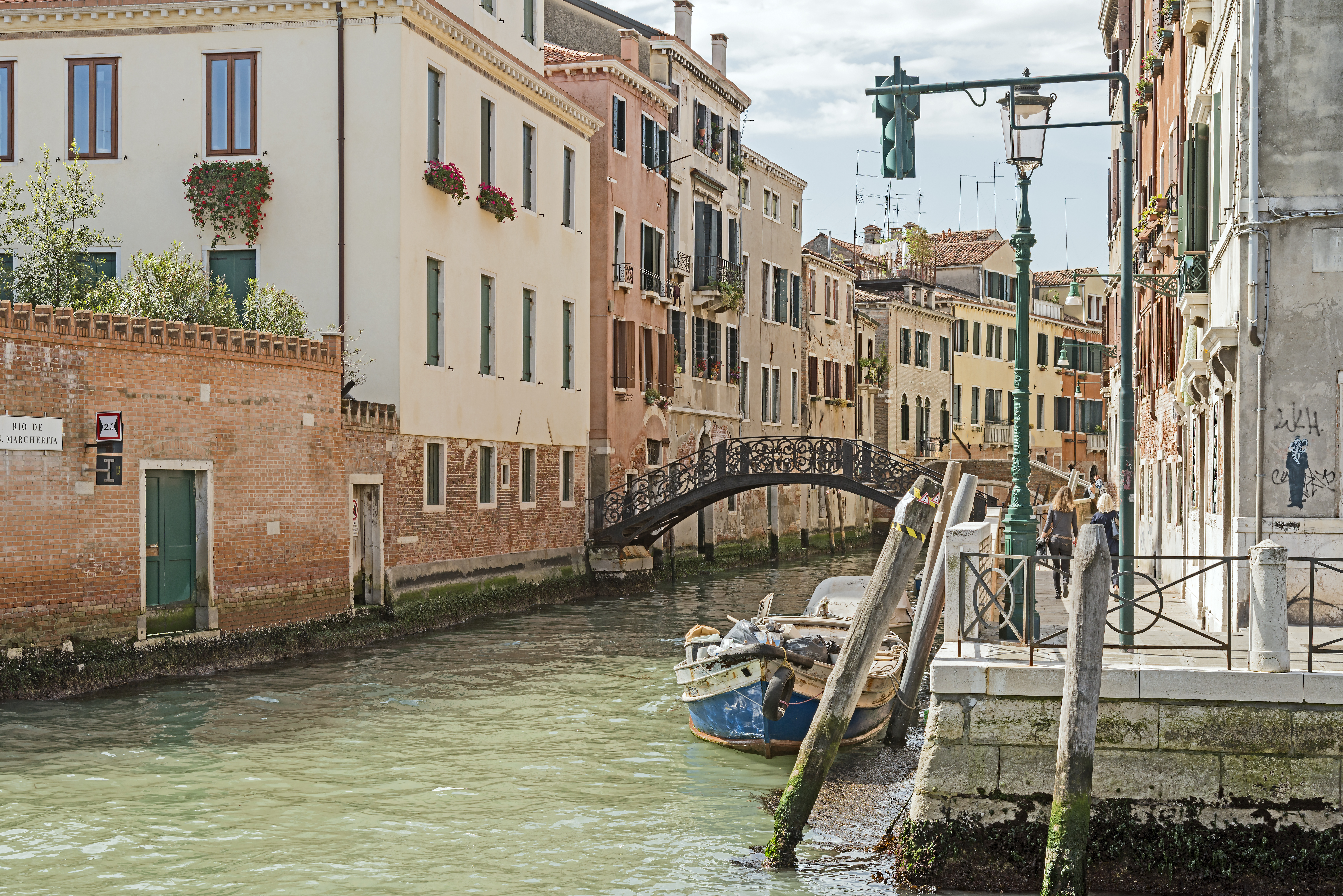 Rio di Santa Margherita Venice. View at its northern end.